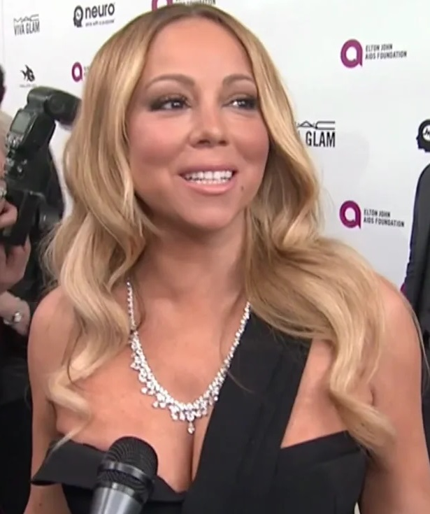 Mariah Carey at Elton John Oscar Party in 2016